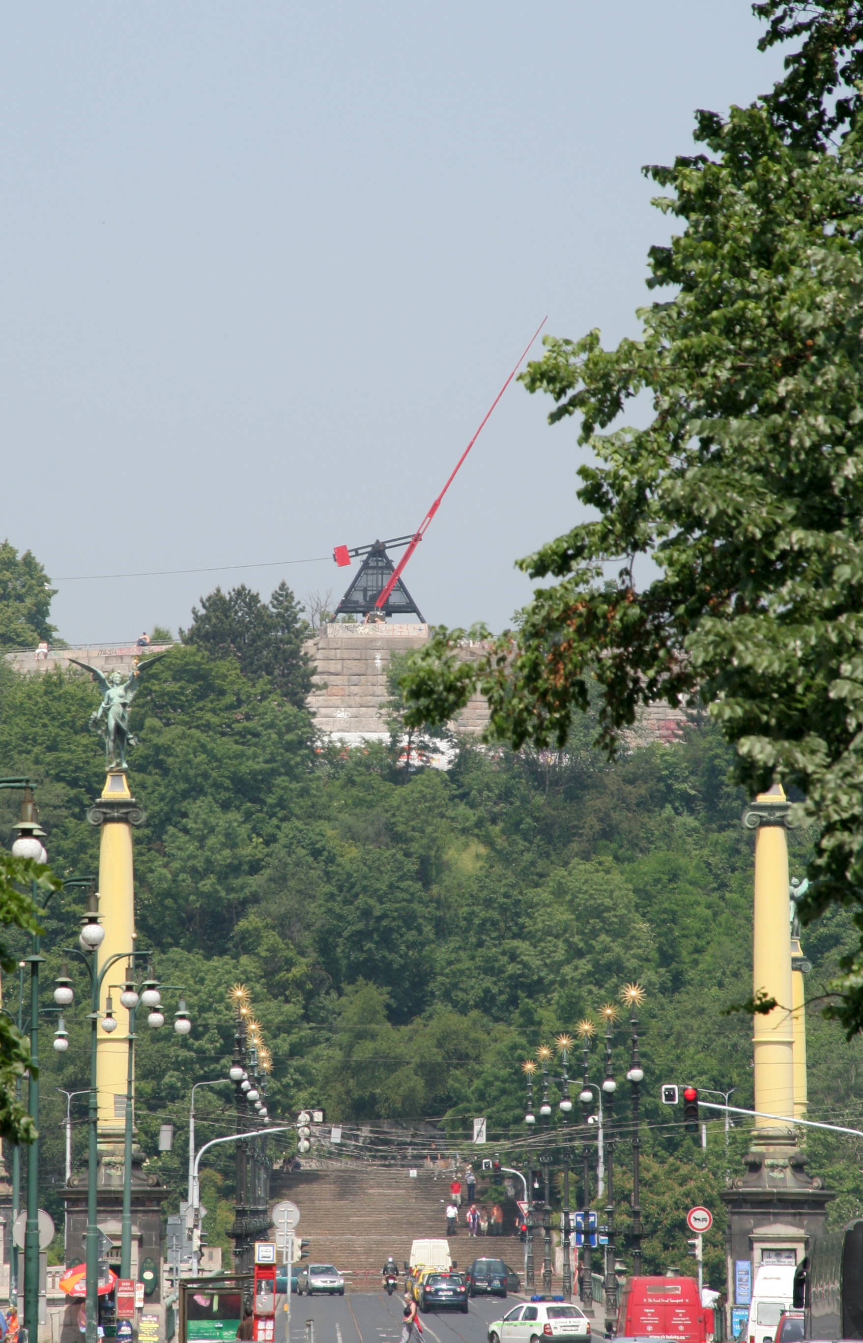 This large Metronome replaced a massive statue of Stalin